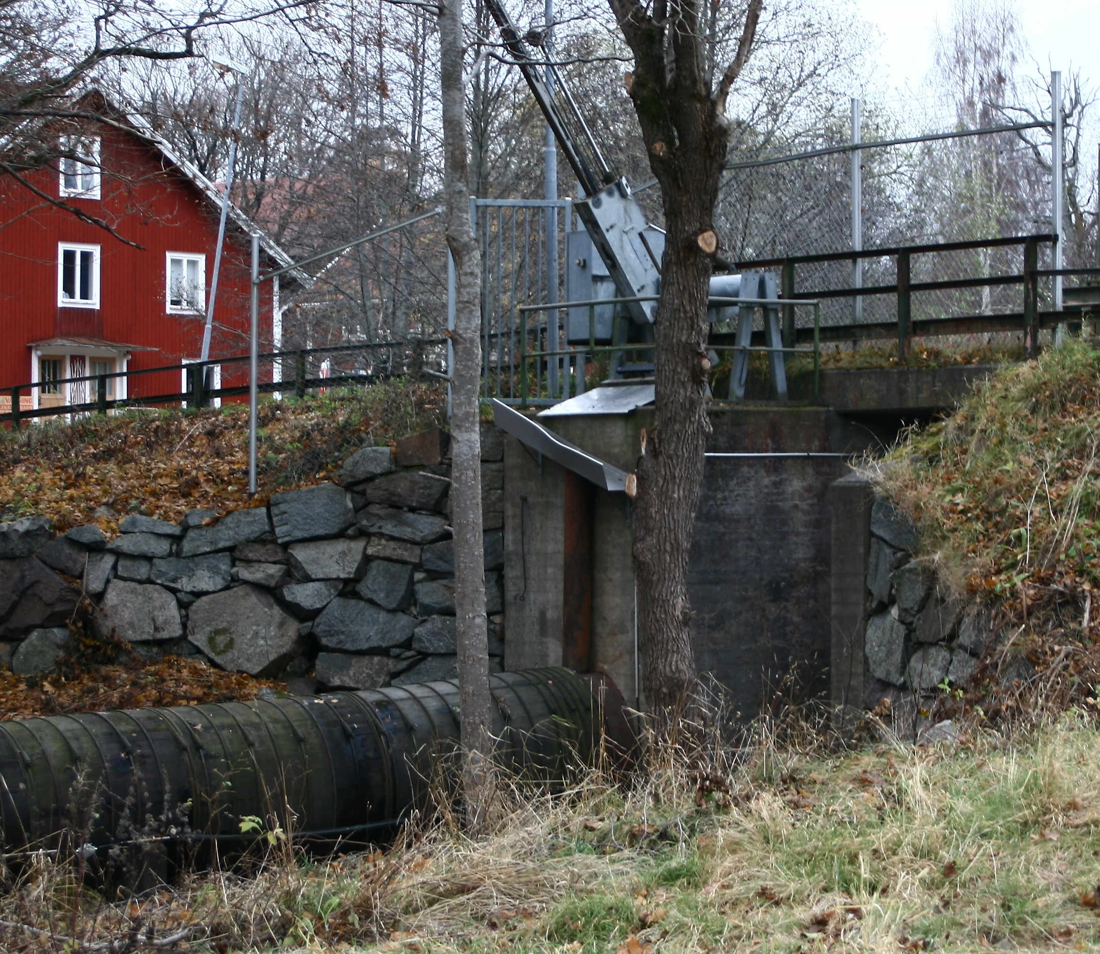 Fitting of the wooden pipe to the dam at Skogaholm, Närke, Sweden.